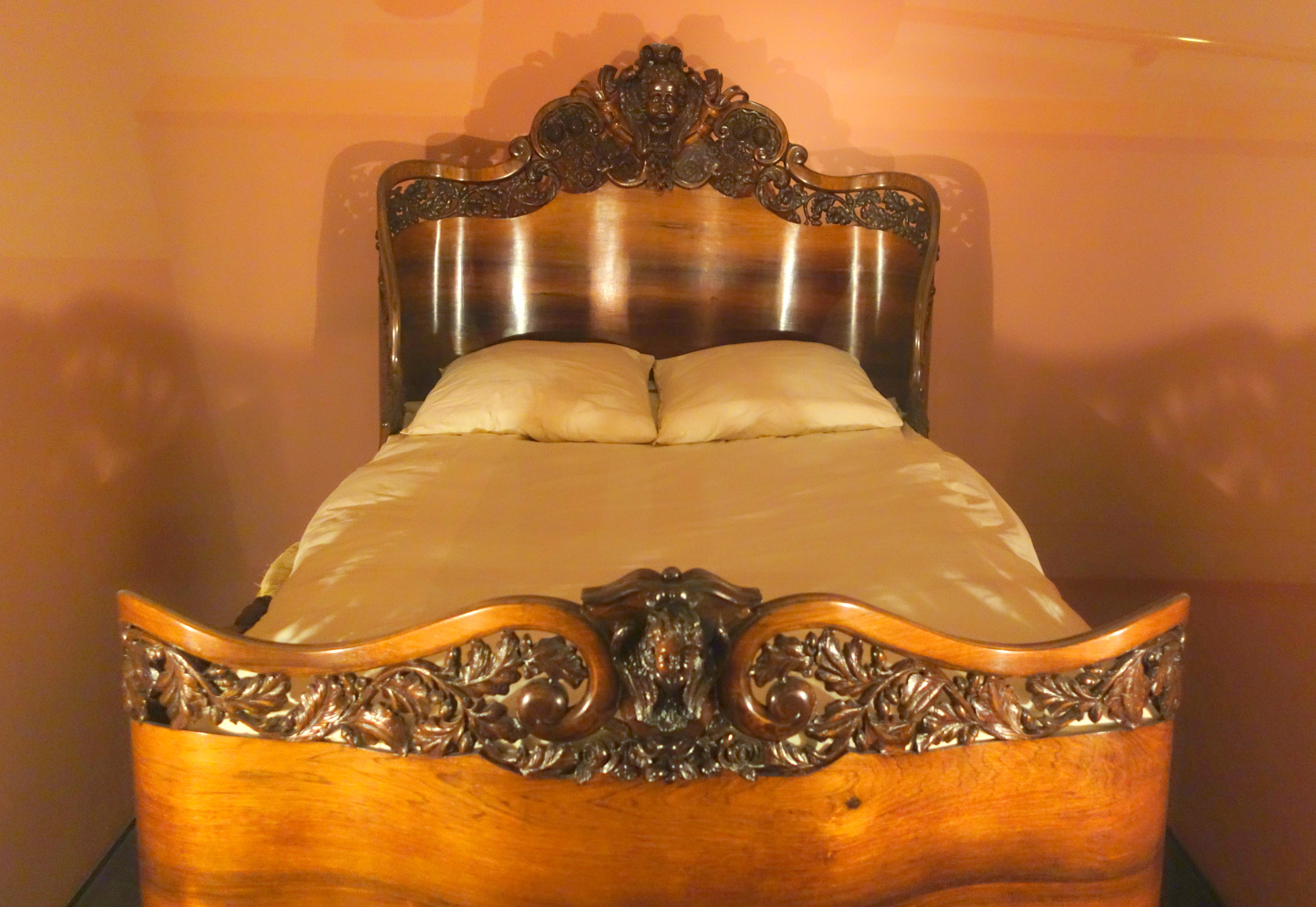 Exhibit in the Brooklyn Museum - Brooklyn, New York, USA. This artwork is in the public domain because the artist died more than 70 years ago.